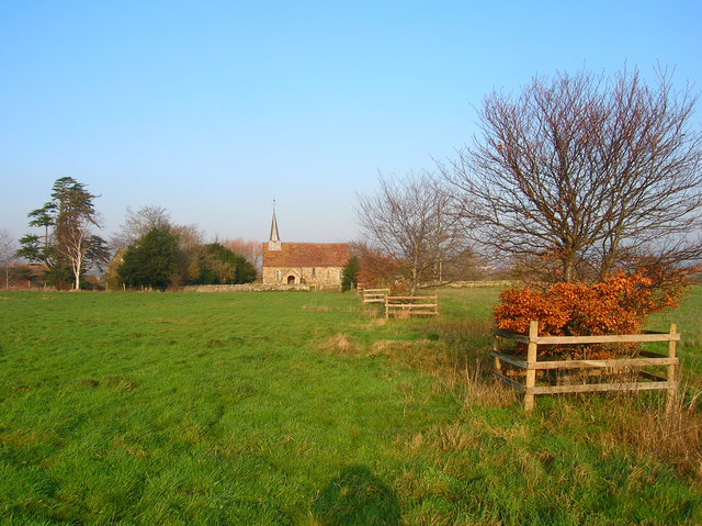 Greatham Church Single room 12th century church. The village consists of a couple of scattered cottages, the church and a manor house. The latter two are some distance from the rest.